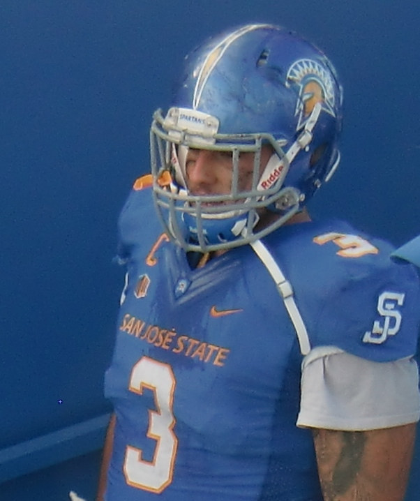 San Jose State defensive tackle Travis Raciti in 2014.